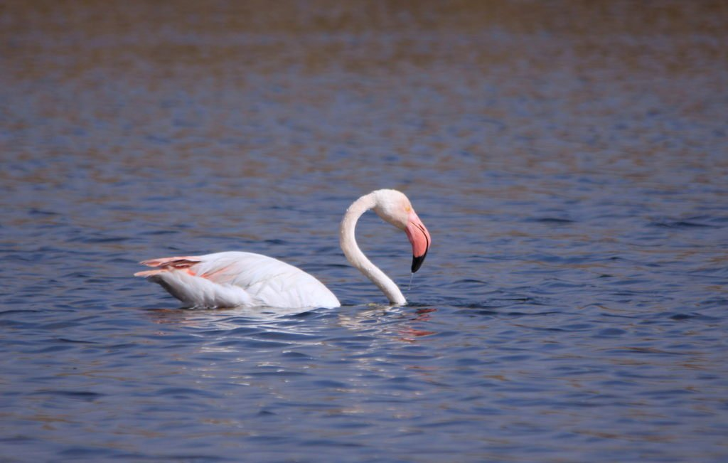 Greater Flamingo, Phoenicopterus roseus at Rondebult Nature Reserve, Gauteng, South Africa - August